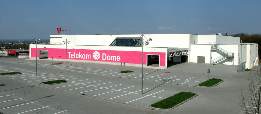 The Telekom Dome in Bonn Duisdorf.